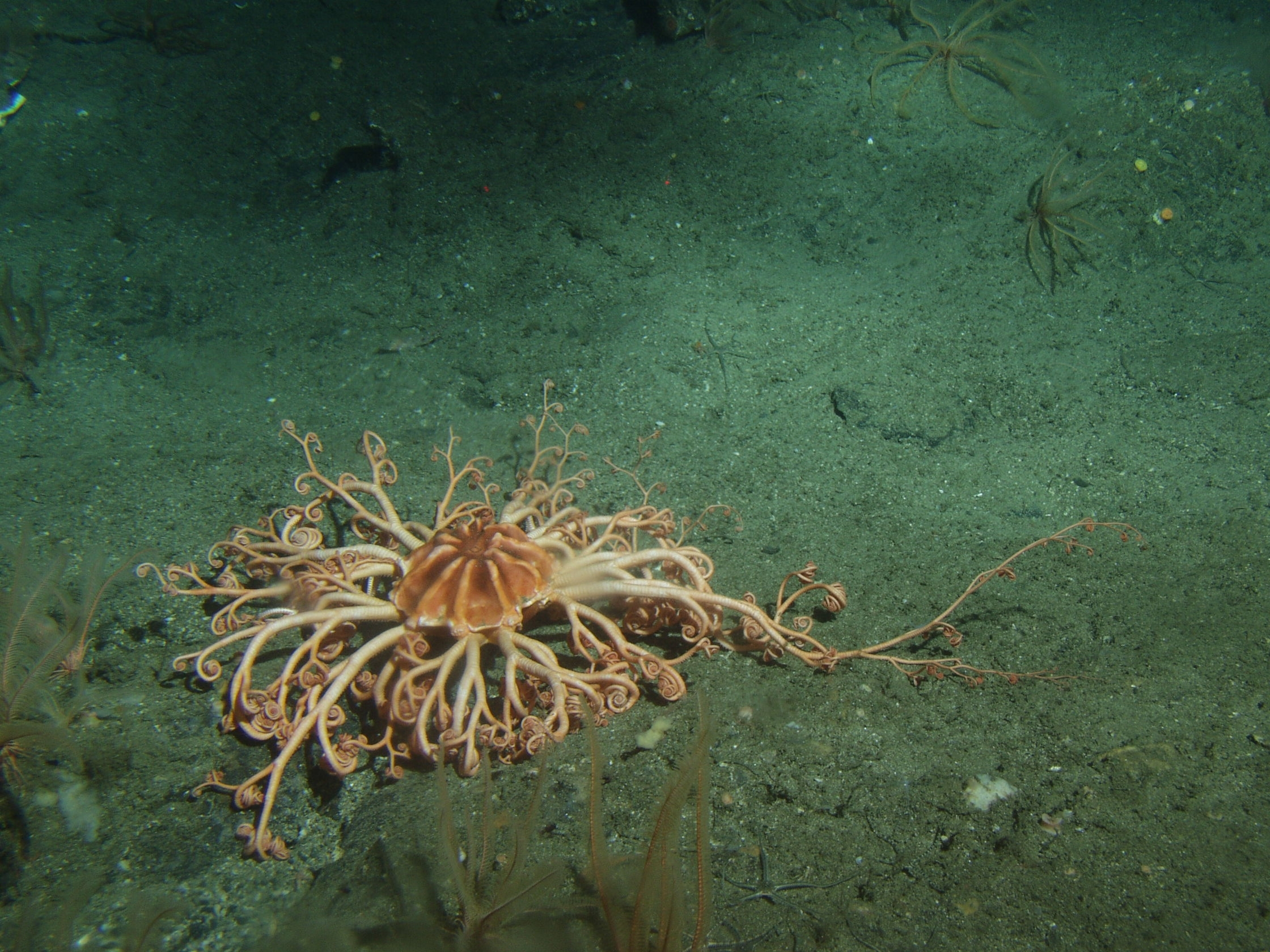 Basket sea star (Gorgonocephalus eucnemisin) soft bottom habitat. California, Cordell Bank National Marine Sanctuary. 2002.